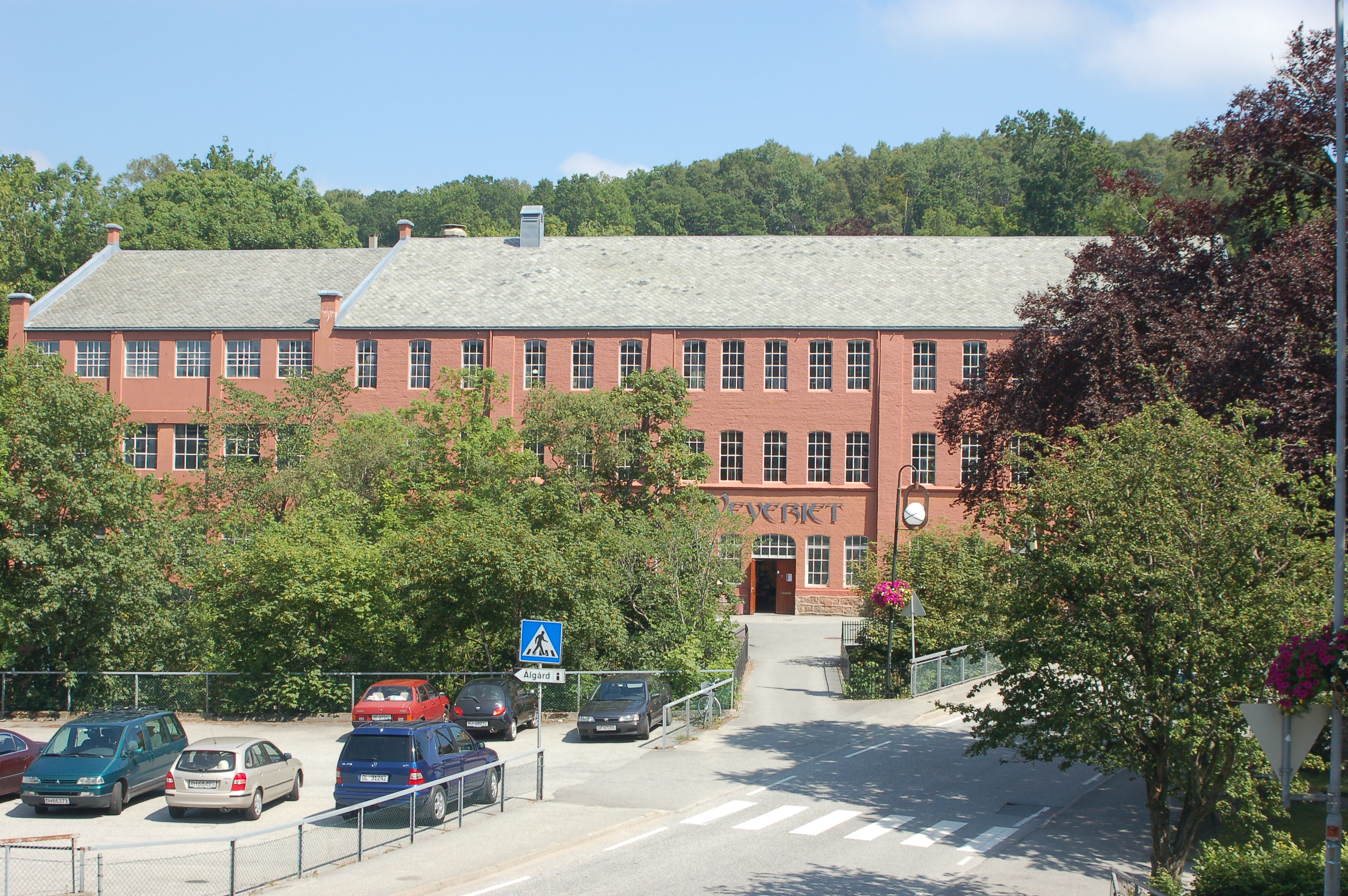 Veveriet, library and the former factory of Aalgaard Uldvarefabrikker, Ålgård, Rogaland, Norway